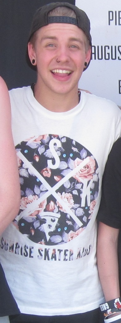 Patty Walters at Warped Tour in Hartford, Connecticut at the XFINITY Theatre. Photo by Peter Dzubay.